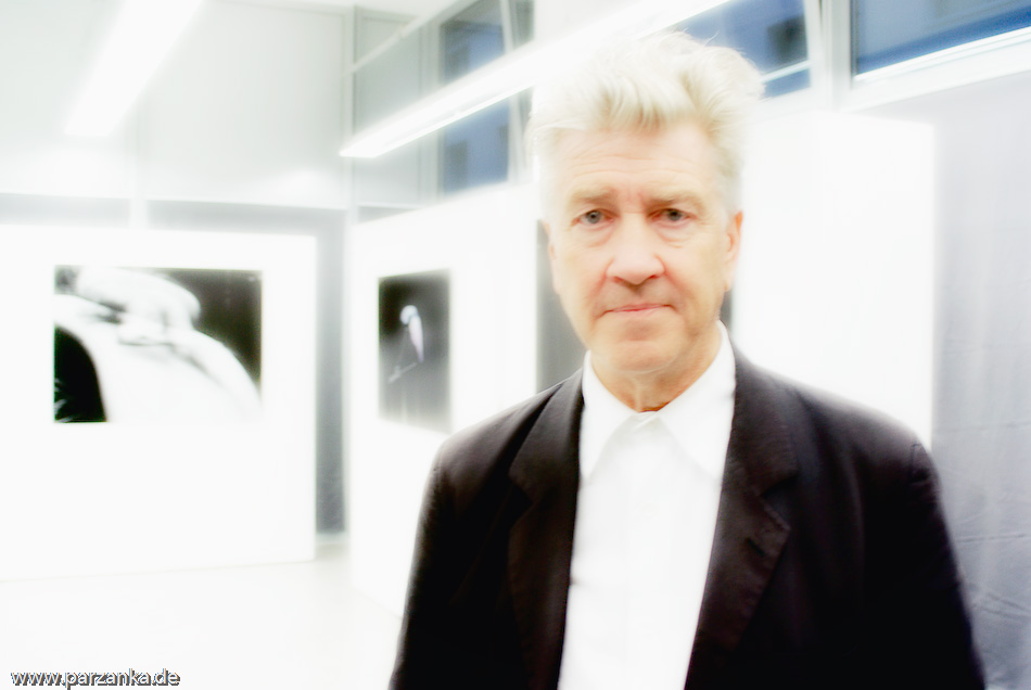 David Lynch, photographed by Michael Parzanka at his first photo exhibition in Germany. The photo was taken in the Epson-Kunstbetrieb gallery.